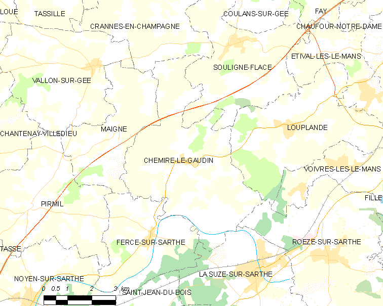 Map of French municipality